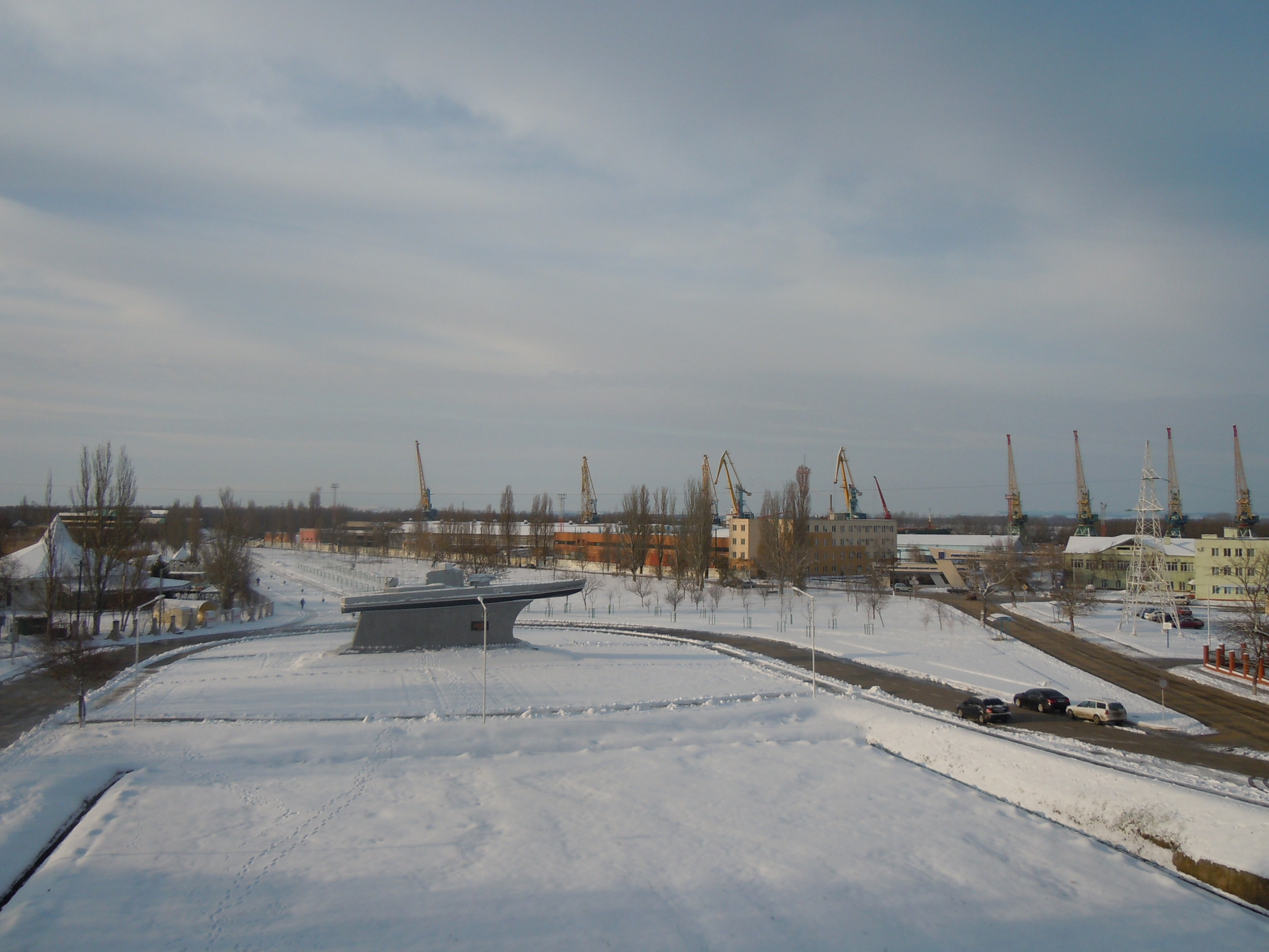 Danube Flotilla Monument